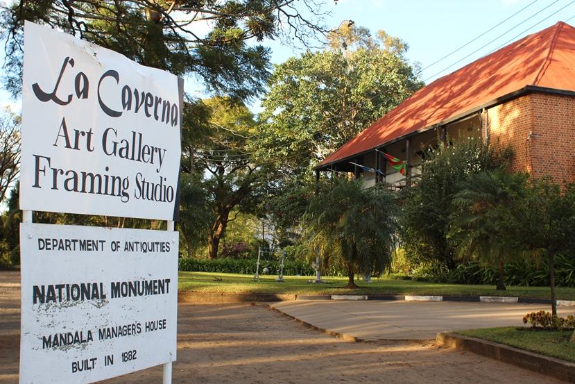 Mandala Manager's House, Blantyre. Malawi's oldest building still standing